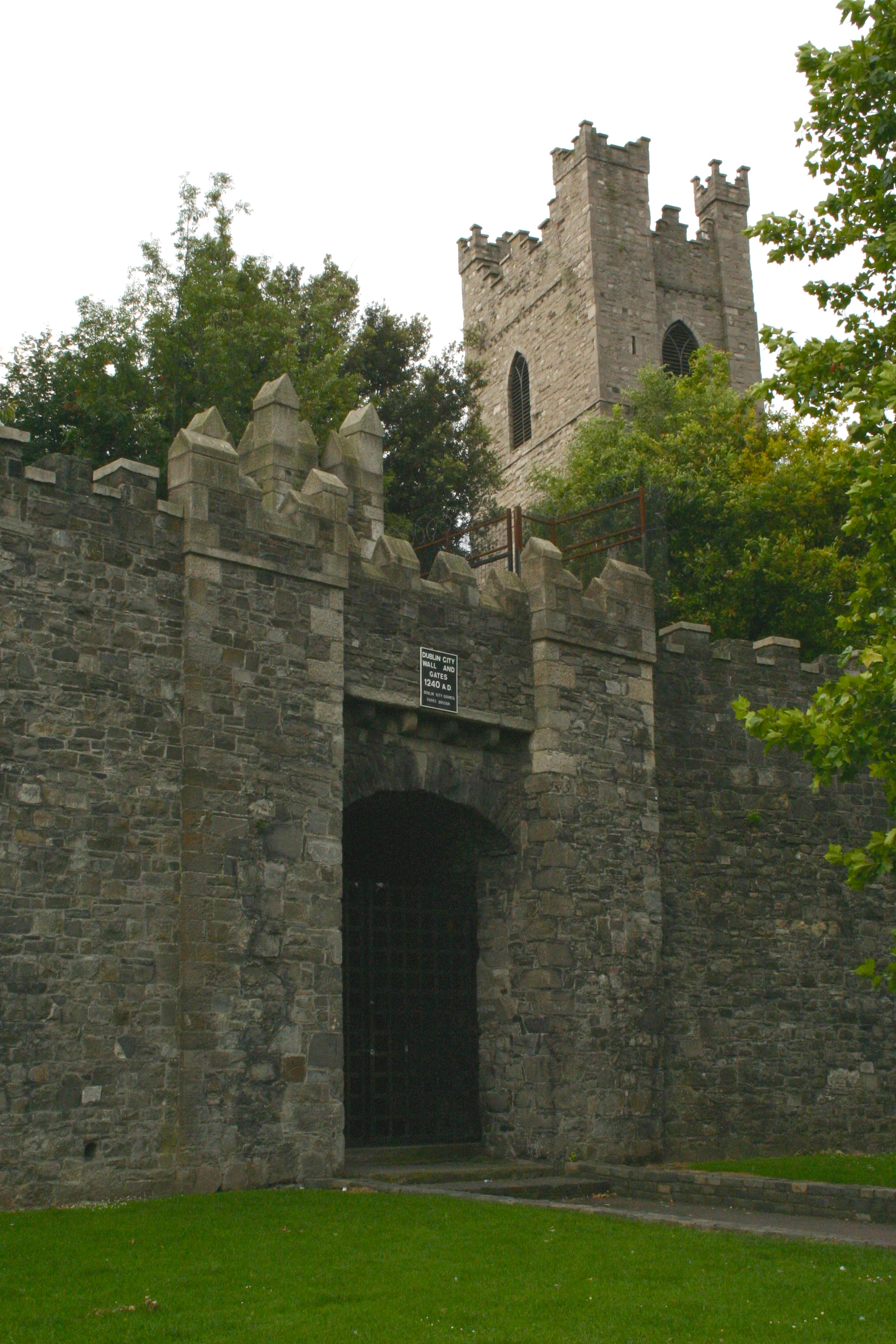 St Audoens Church